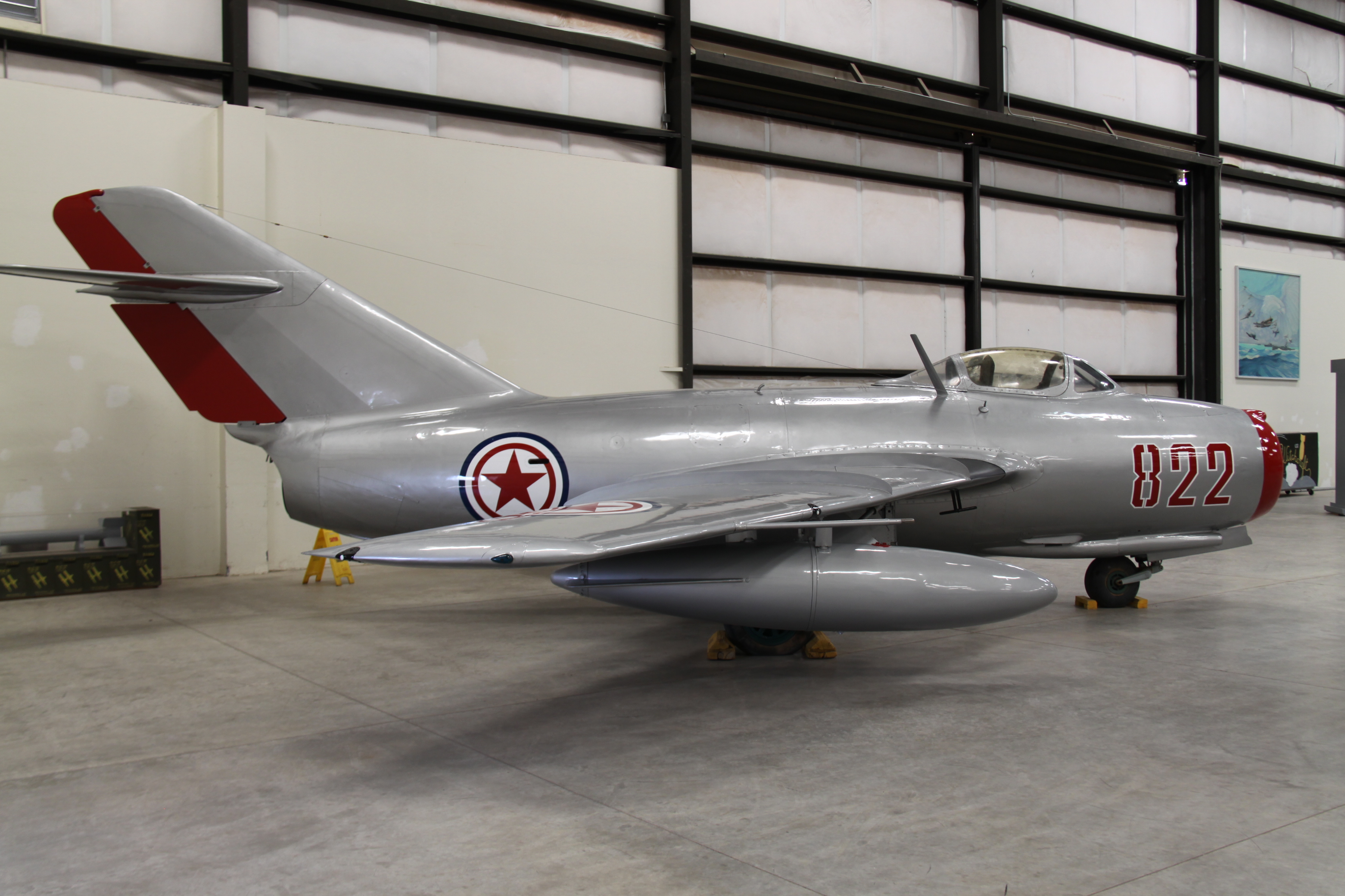 At Pima Air & Space Museum